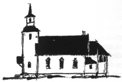 The third church in Vikebygd, Norway. Probably build in 1872. Own drawing.